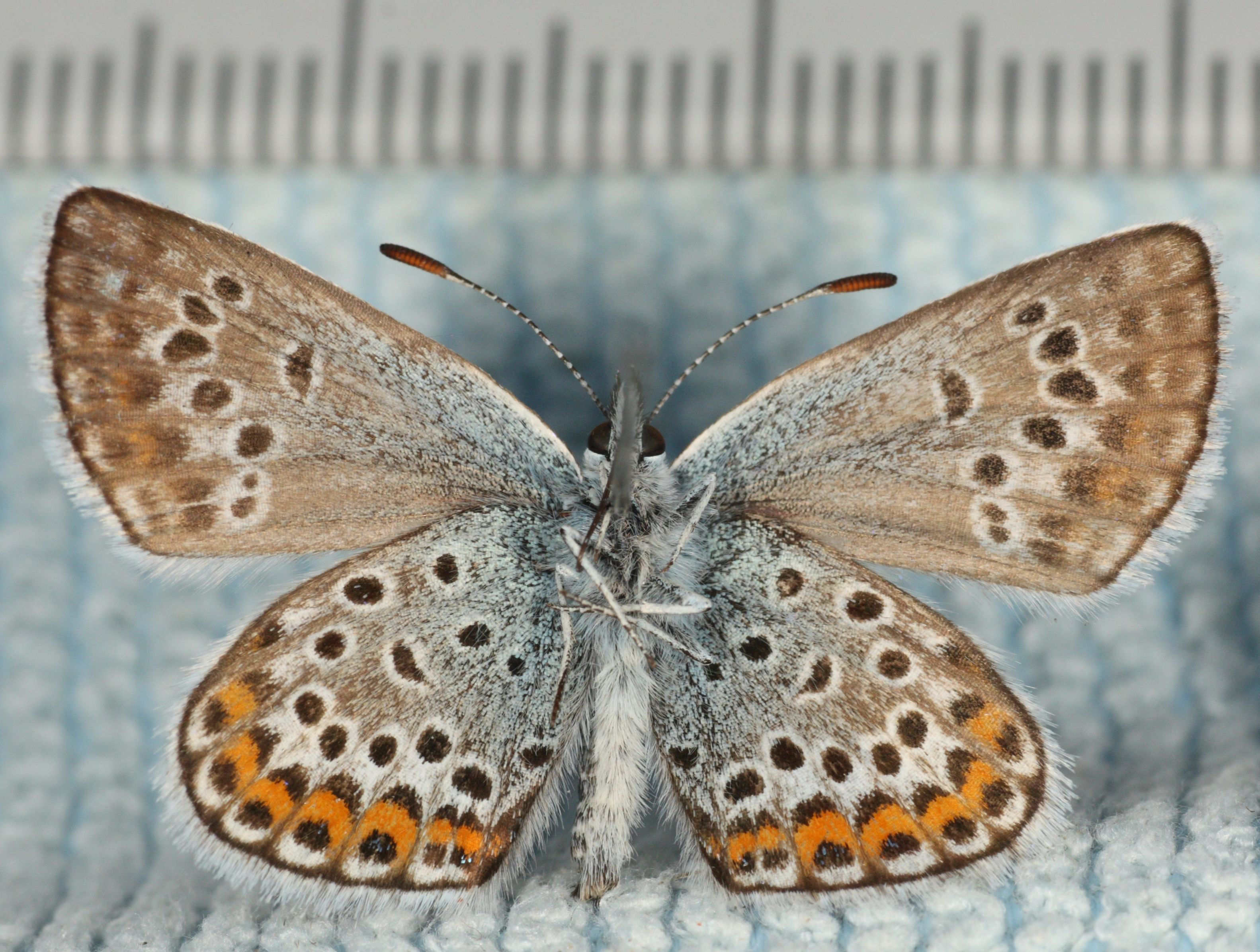 Male Silver-studded Blue Plebeius argus